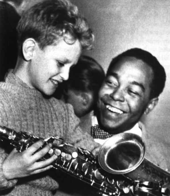 Photograph of the Jazz musician Charlie Parker in Gävle, Sweden, with the young Göran Schultz.